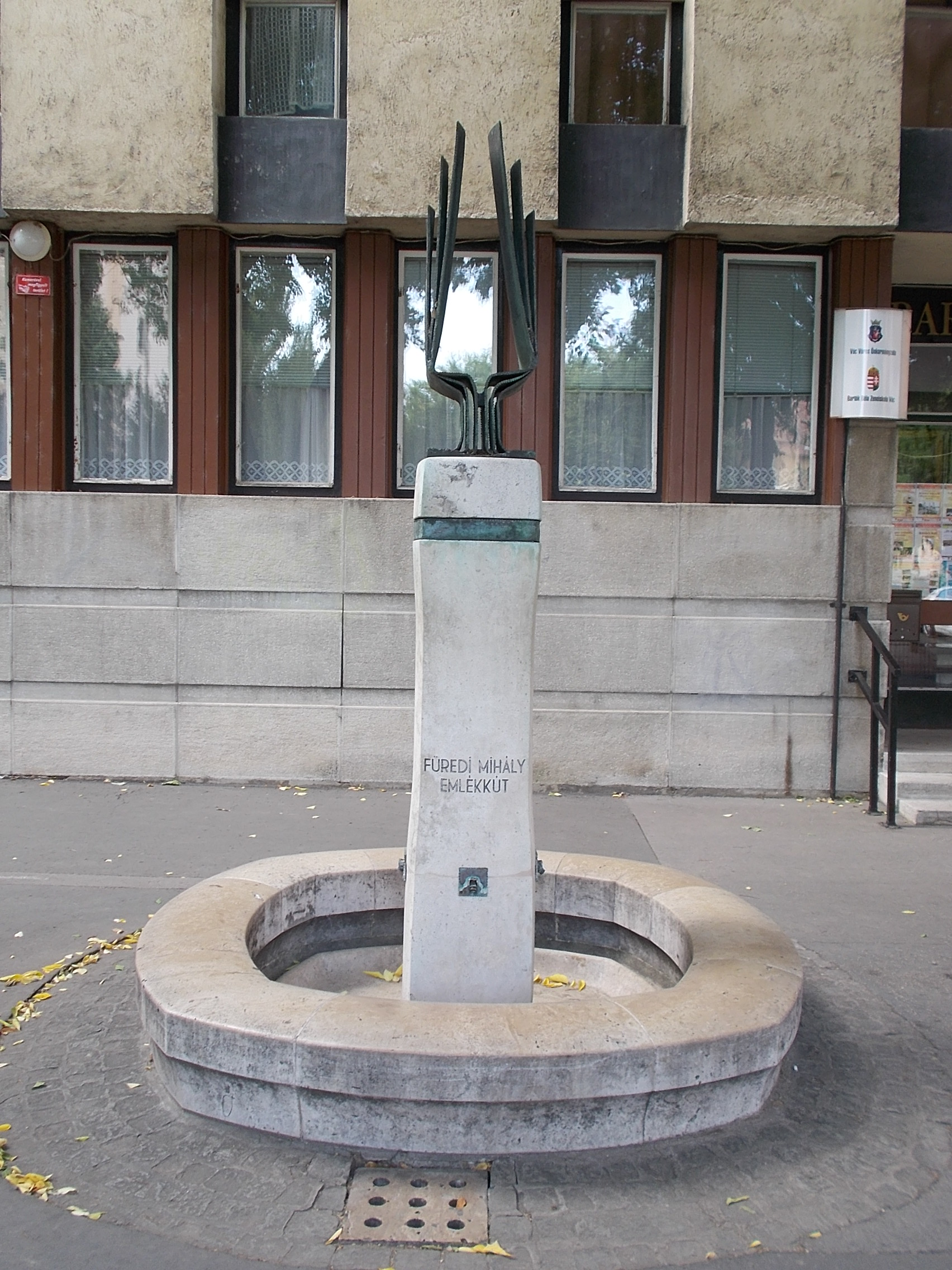 Mihály Füredi memorial well. Fountain sculpture, ornamental fountain, copper, limestone by Imre Kovács, János Sedlmayr (architect) in 1974. Limestone pillar with stylized tuning forks and round copper sculpture. - Konstantin Square, Vác, Pest County, Hungary